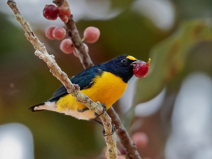 White-vented Euphonia (male); Manacapuru, Amazonas, Brazil